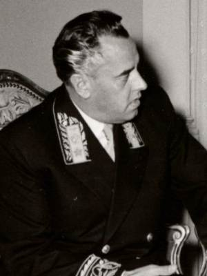 Nikolay Firyubin was a Soviet diplomat Srpski (latinica): Nikolaj Firjubin bio je istaknuti sovjetski političar.